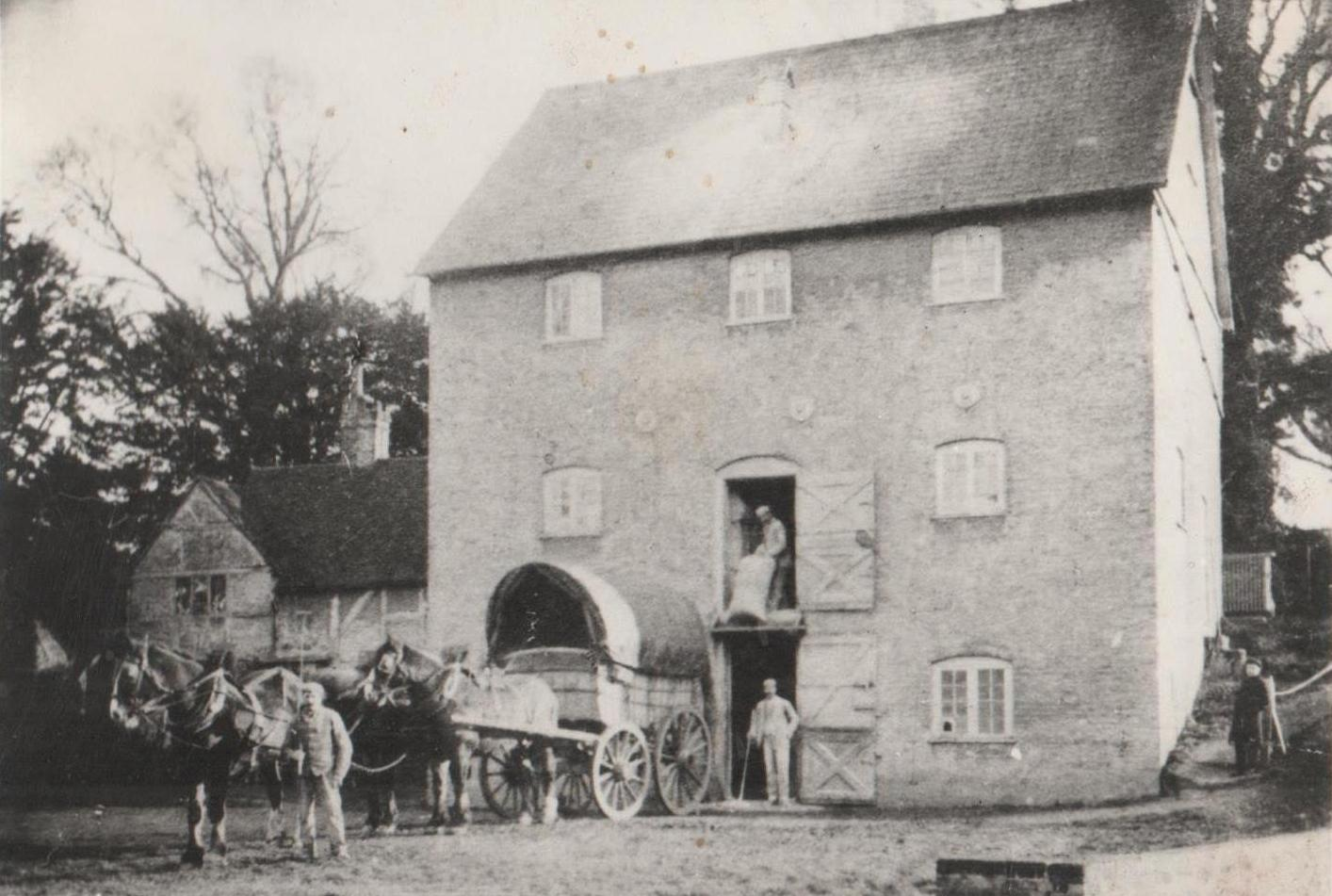 Photograph of Pixham Mill, Dorking, Surrey, England, when in use.